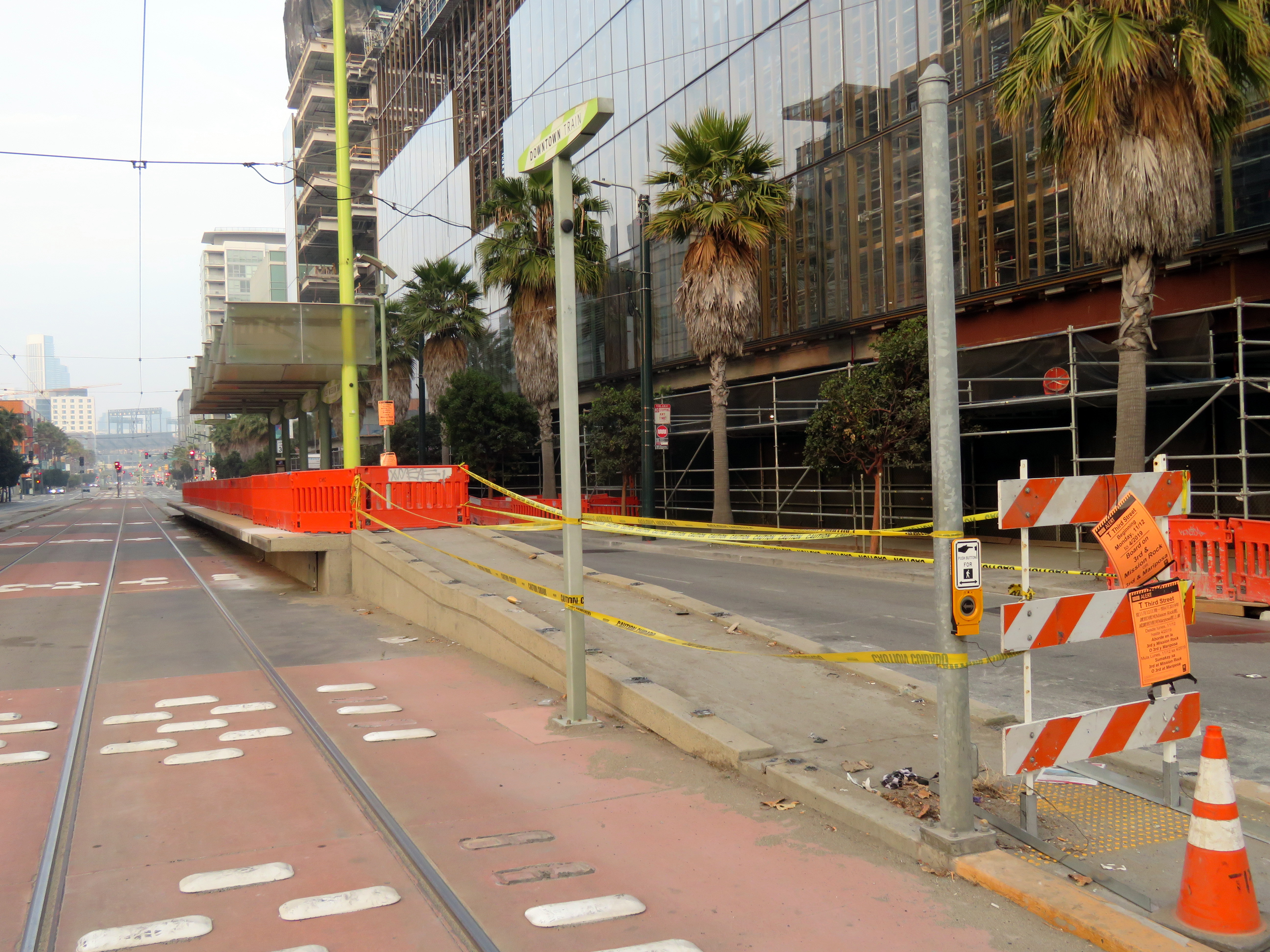 The closed northbound platform at UCSF/Mission Bay station in November 2018. The 2007-opened side platforms were being replaced by a logner island platform as part of the construction of the new Golden State Warriors arena on an adjacent block.